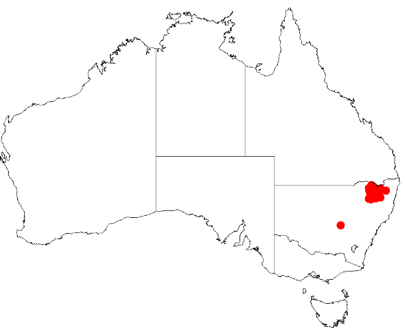 Acacia leptoclada Occurrence data from Australasia Virtual Herbarium downloaded from on 8 December 2018